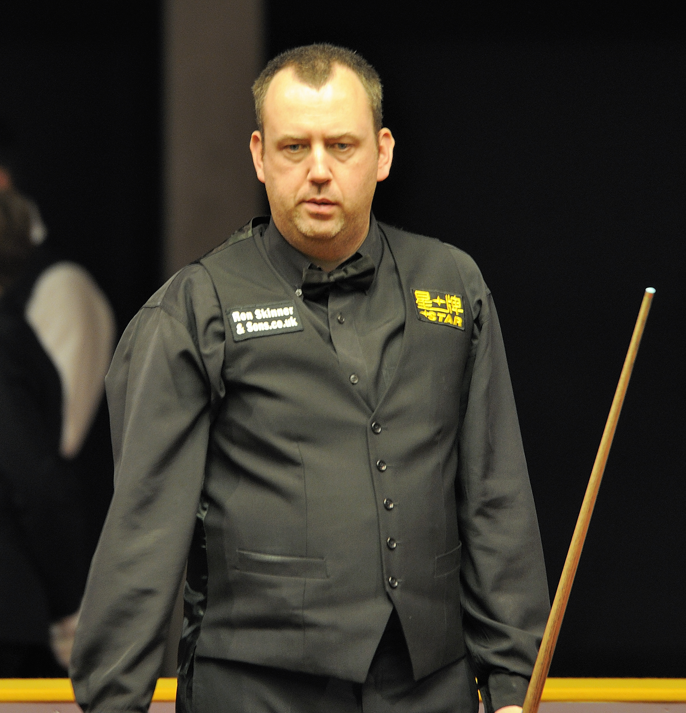 Picture taken in Berlin during the Snooker German Masters in 2014. Mark Williams.